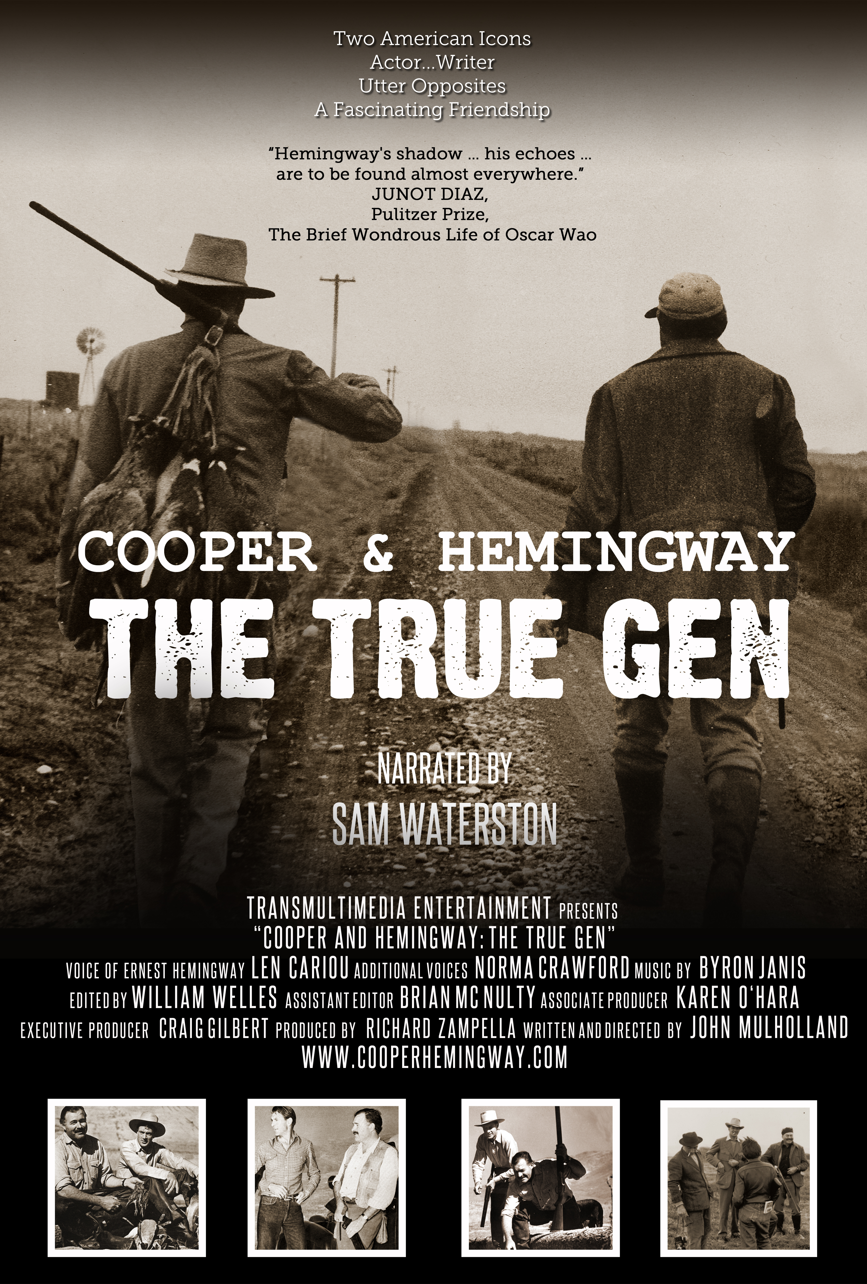 Official Film Poster for Cooper & Hemingway: The True Gen – Ernest Hemingway & Gary Cooper in Ketchum Idaho